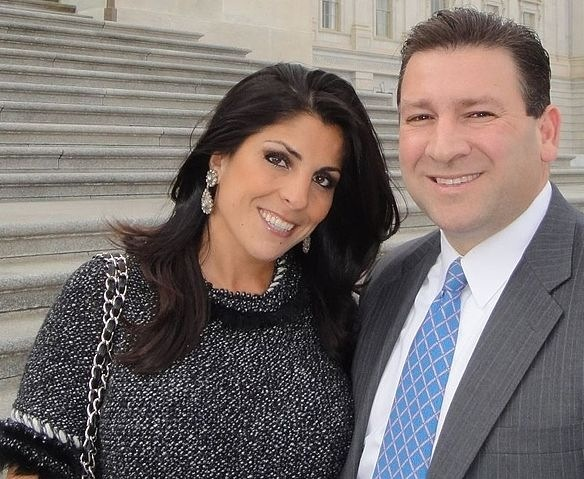 Jill & Scott Kelley